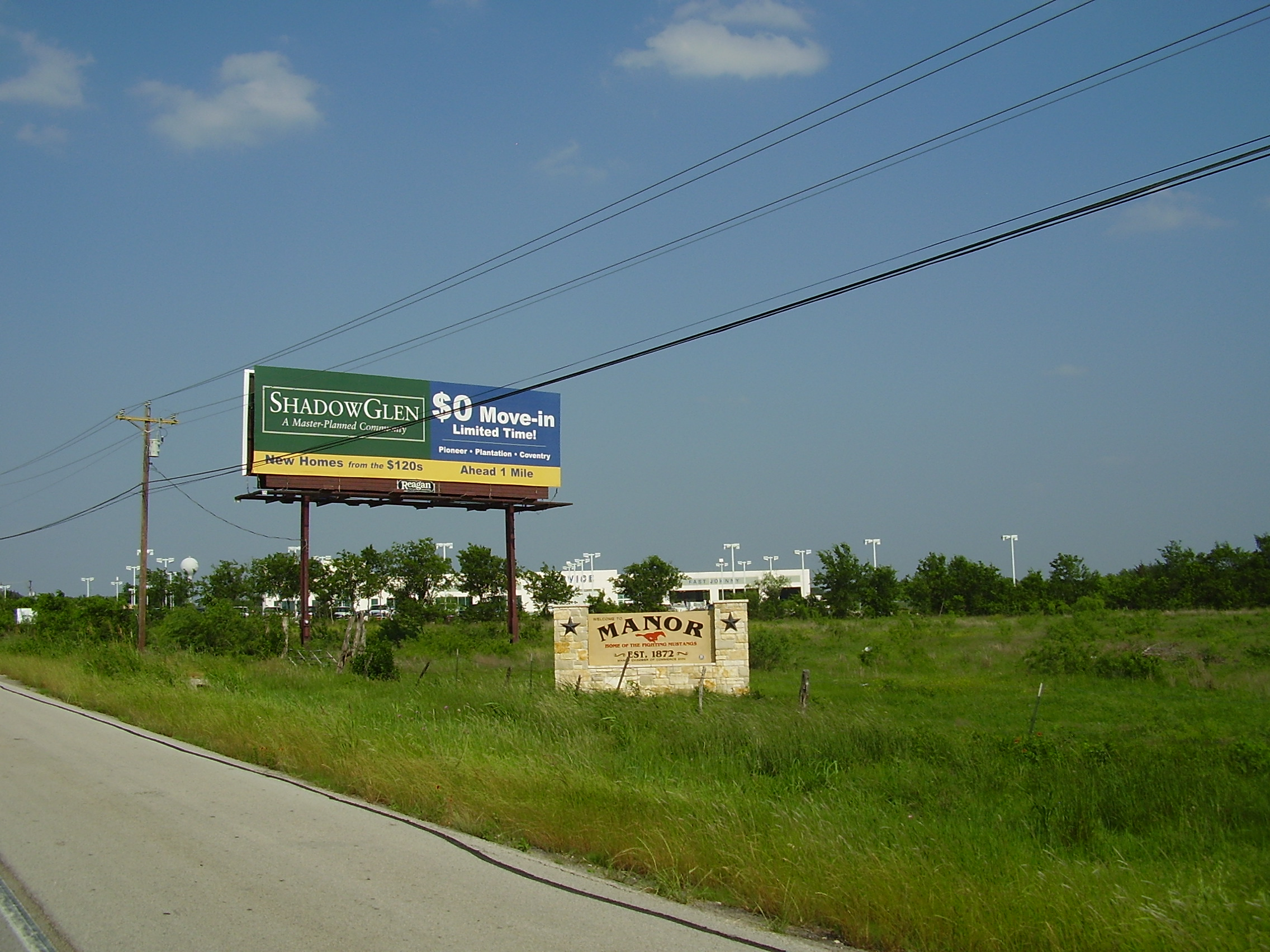 Sign indicating Manor, TX